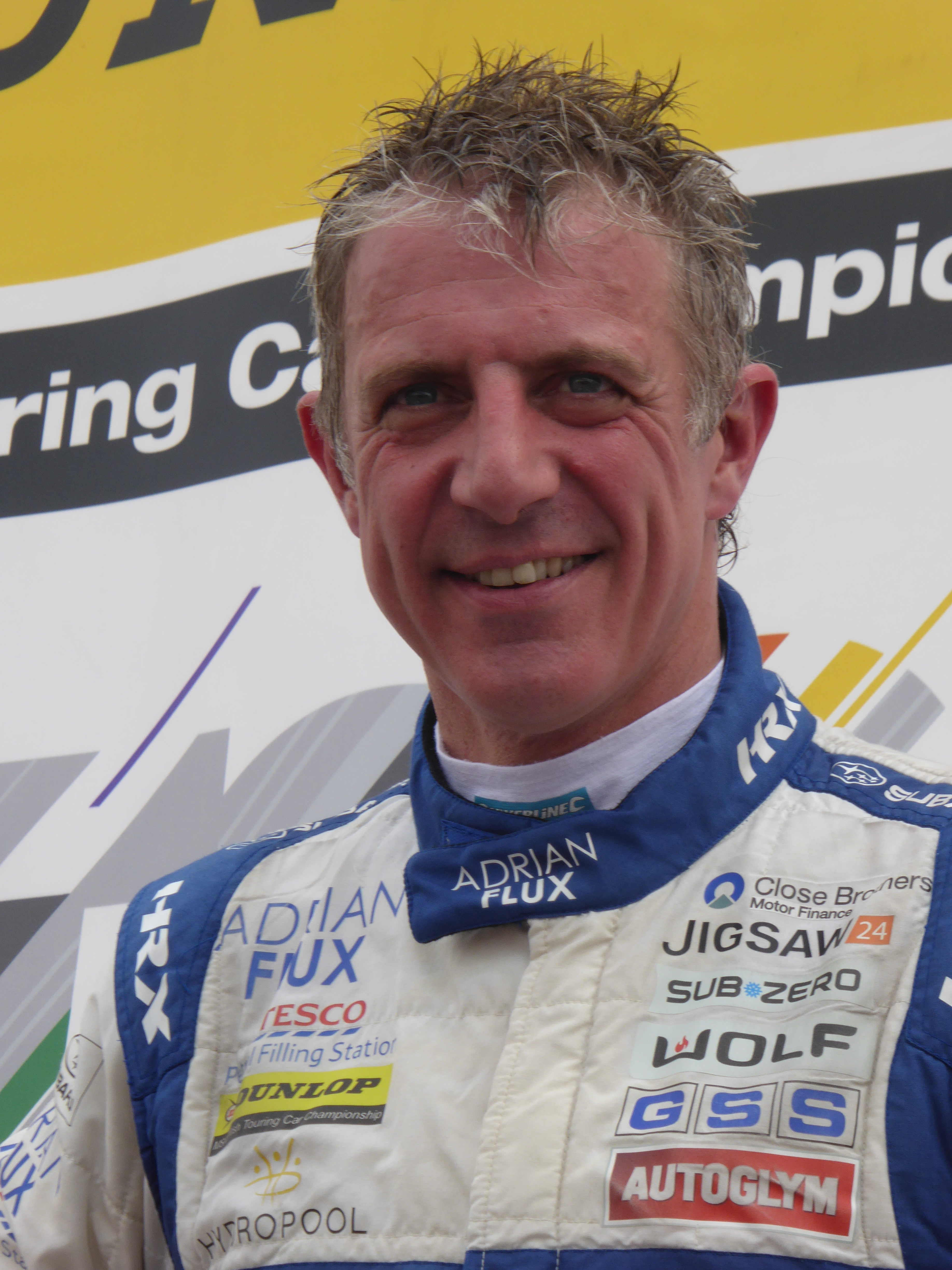 Jason Plato (Adrian Flux Subaru Racing), who finished second in Race 2, at the Knockhill round of the 2017 British Touring Car Championship.